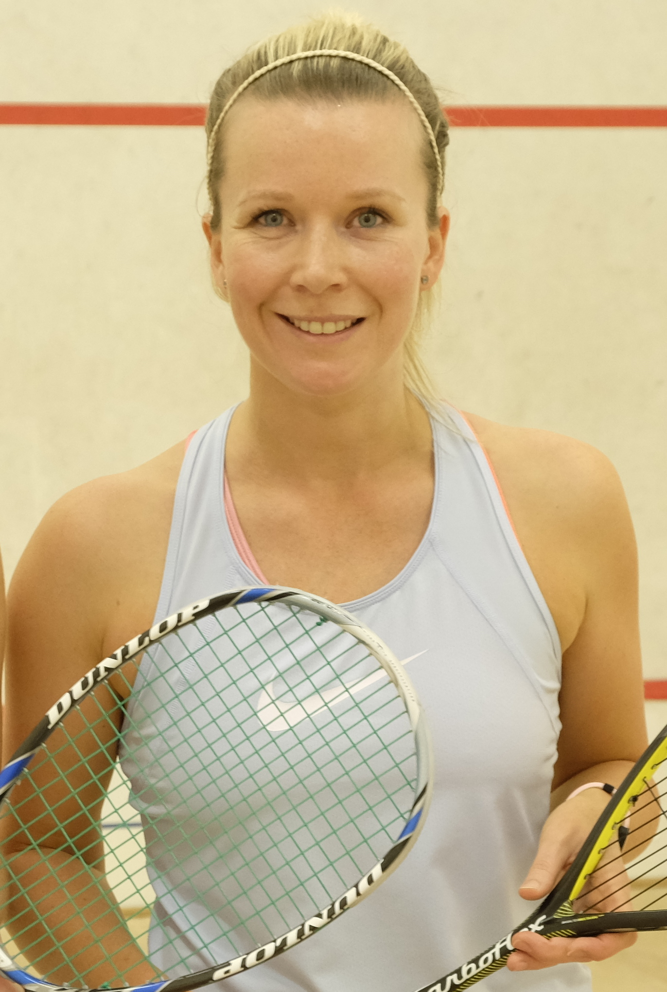 Dominique Lloyd-Walter at the British Open Masters 2018